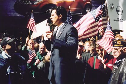 Michael Benjamin, Times Square Rally, 2004